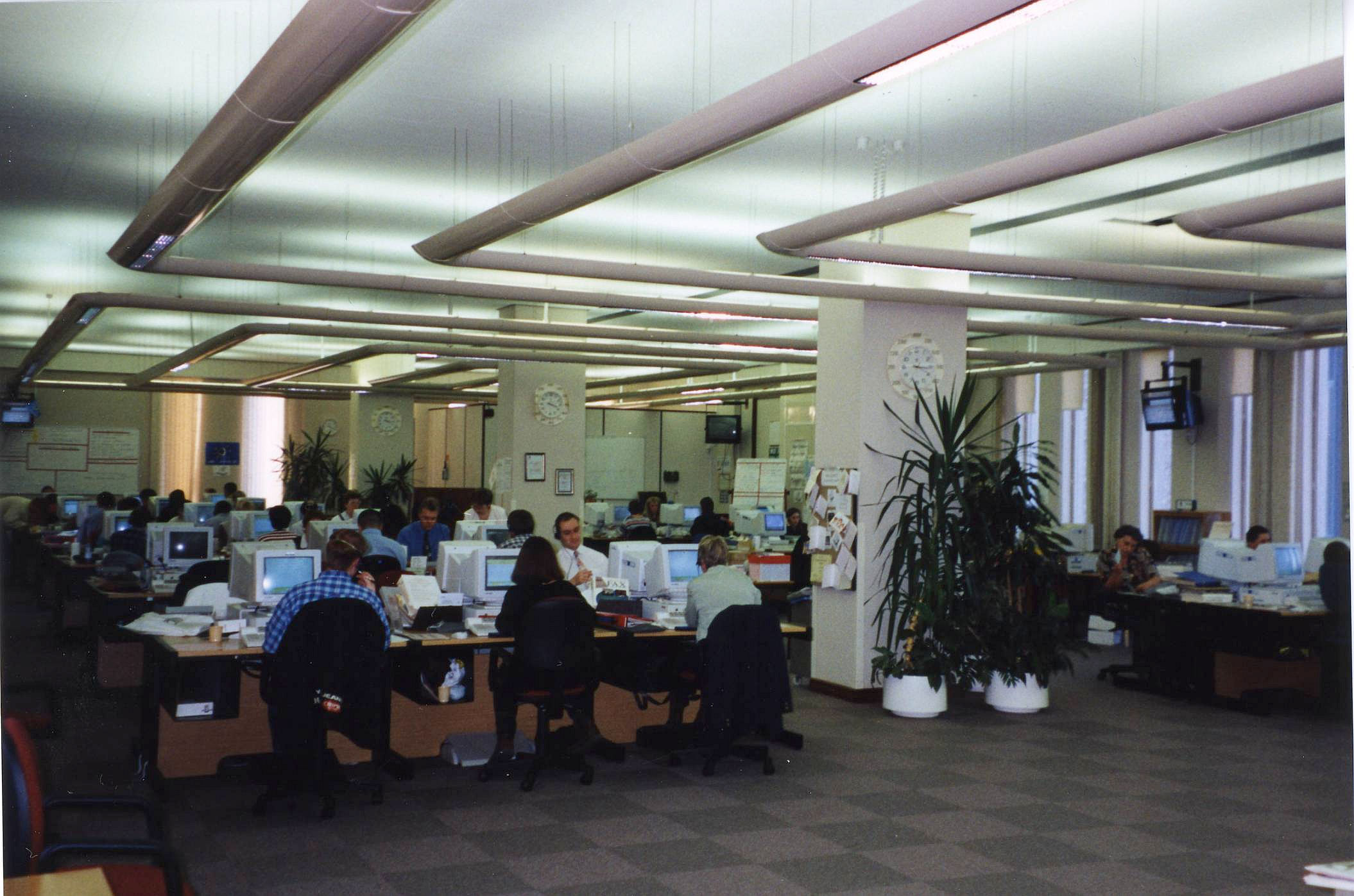 British Telecom International Directory Assistance in Grimsby, UK